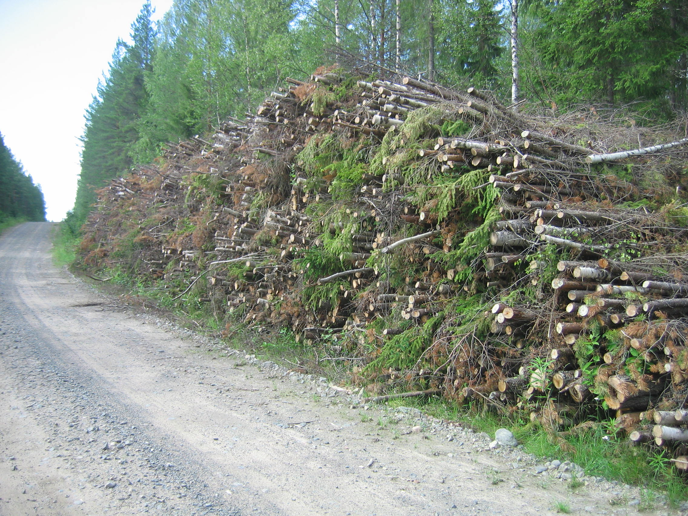 A pile of wood meant for woodchip production in Ylikiiminki, Finland.